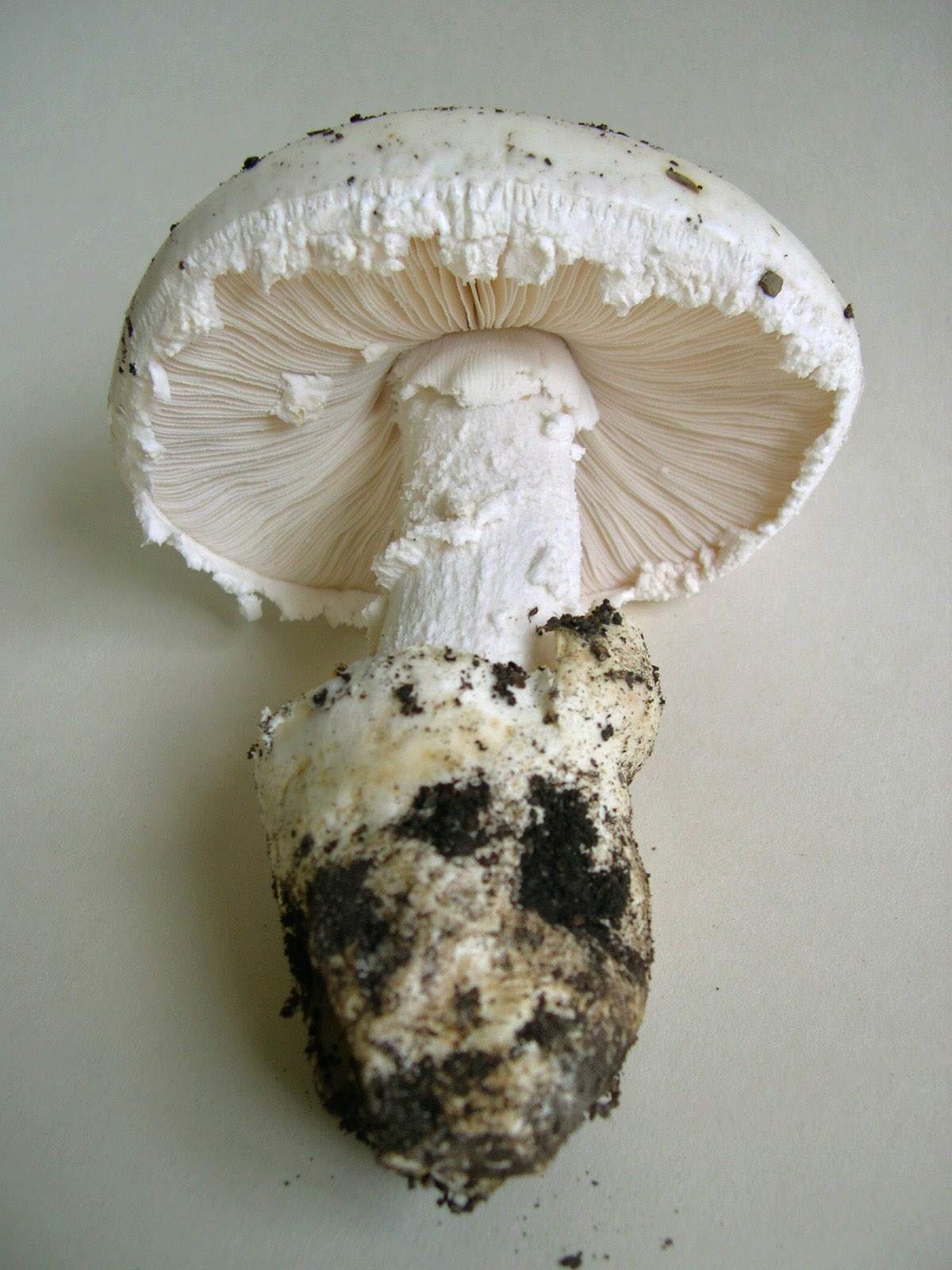 Piacenza's mountains. September 2005